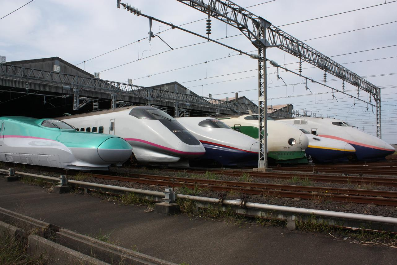 JR East Shinkansen Lineup on a Public opening Event at Niigata Shinkansen Rolling Stock Center / (from the Left) E5 Series, E3 Series, E2 Series, 200 Series, E4 Series, and E1 Series